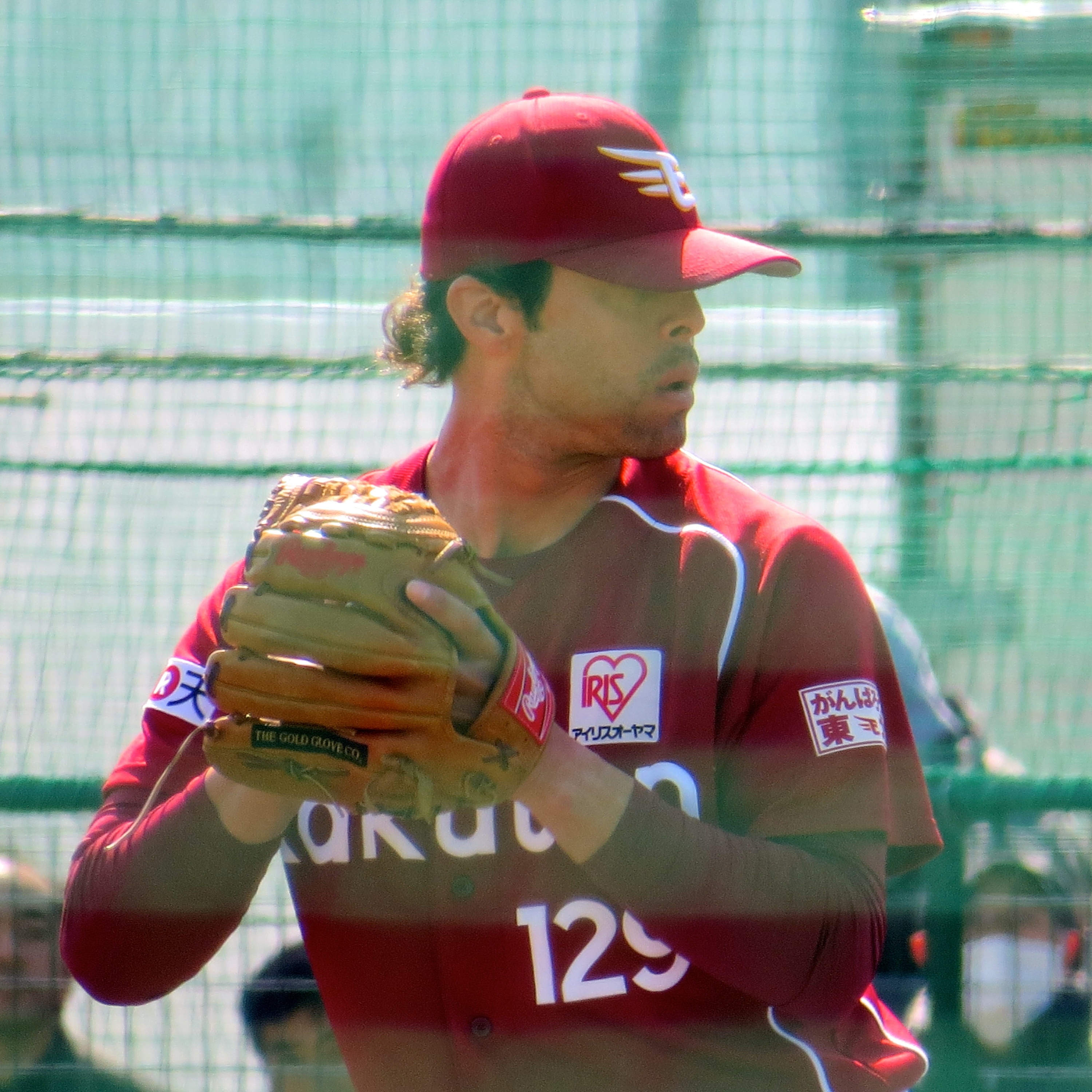 Sergio Mitre, pitcher of the Tohoku Rakuten Golden Eagles, at Lotte Urawa Baseball Ground.